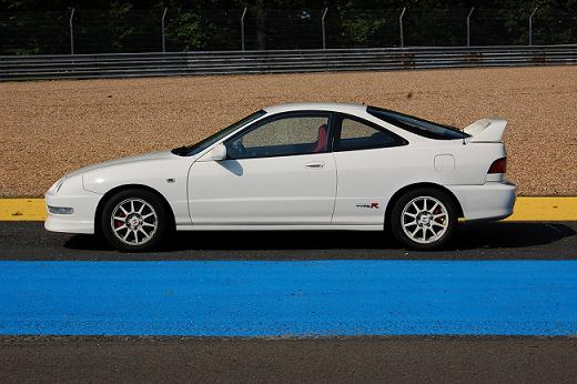 on track